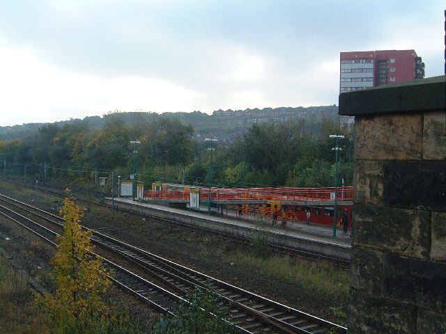 Gateshead Stadium station on the Tyne and Wear Metro. The view south from the north end of the St James Road, over the mainline double track, to the south eastern half of the platform.